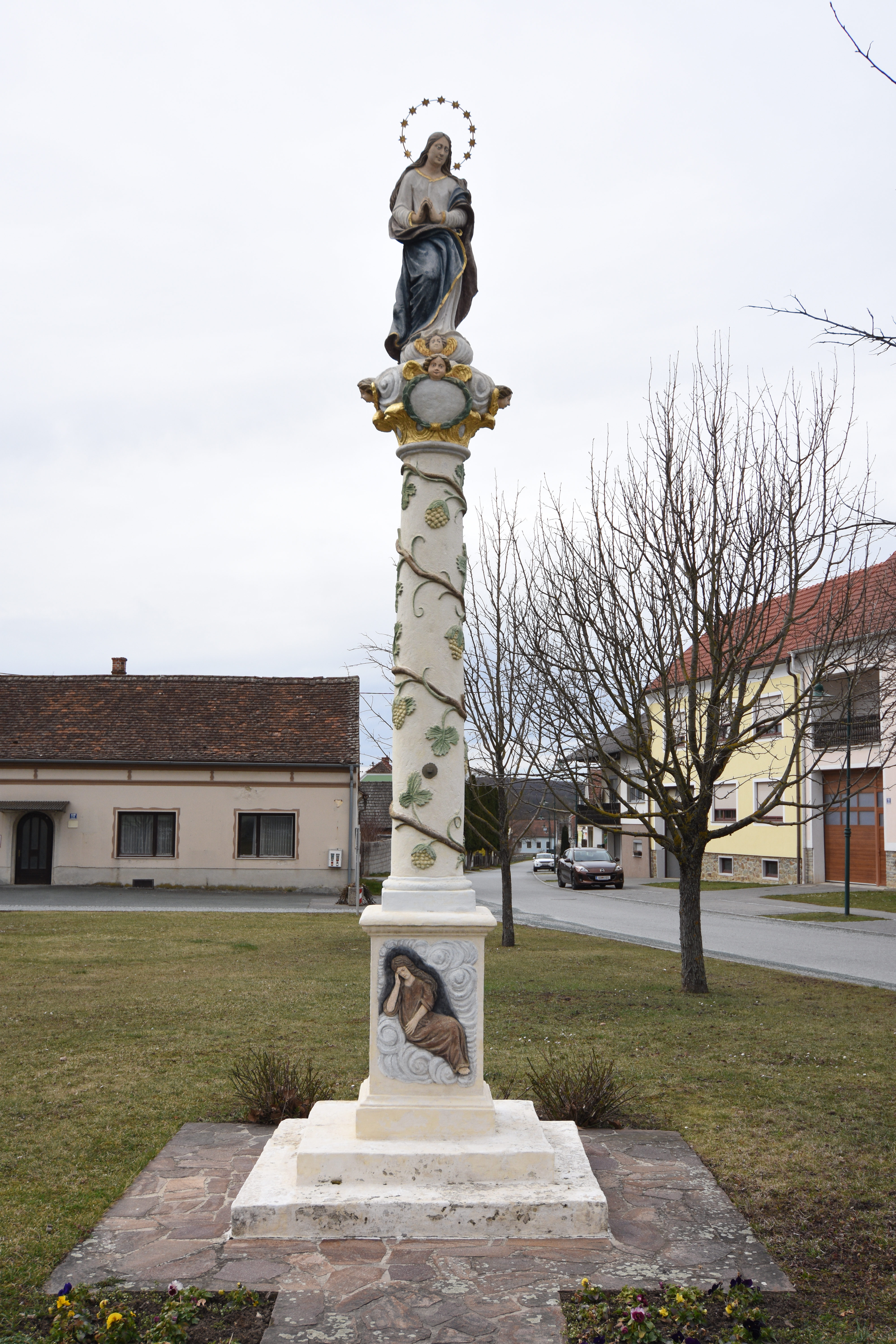 Cultural heritage monuments in Bildein